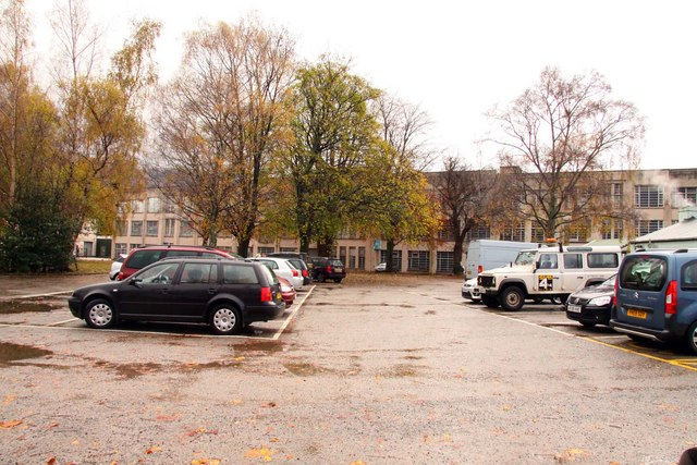 The Cumberland Pencil Factory